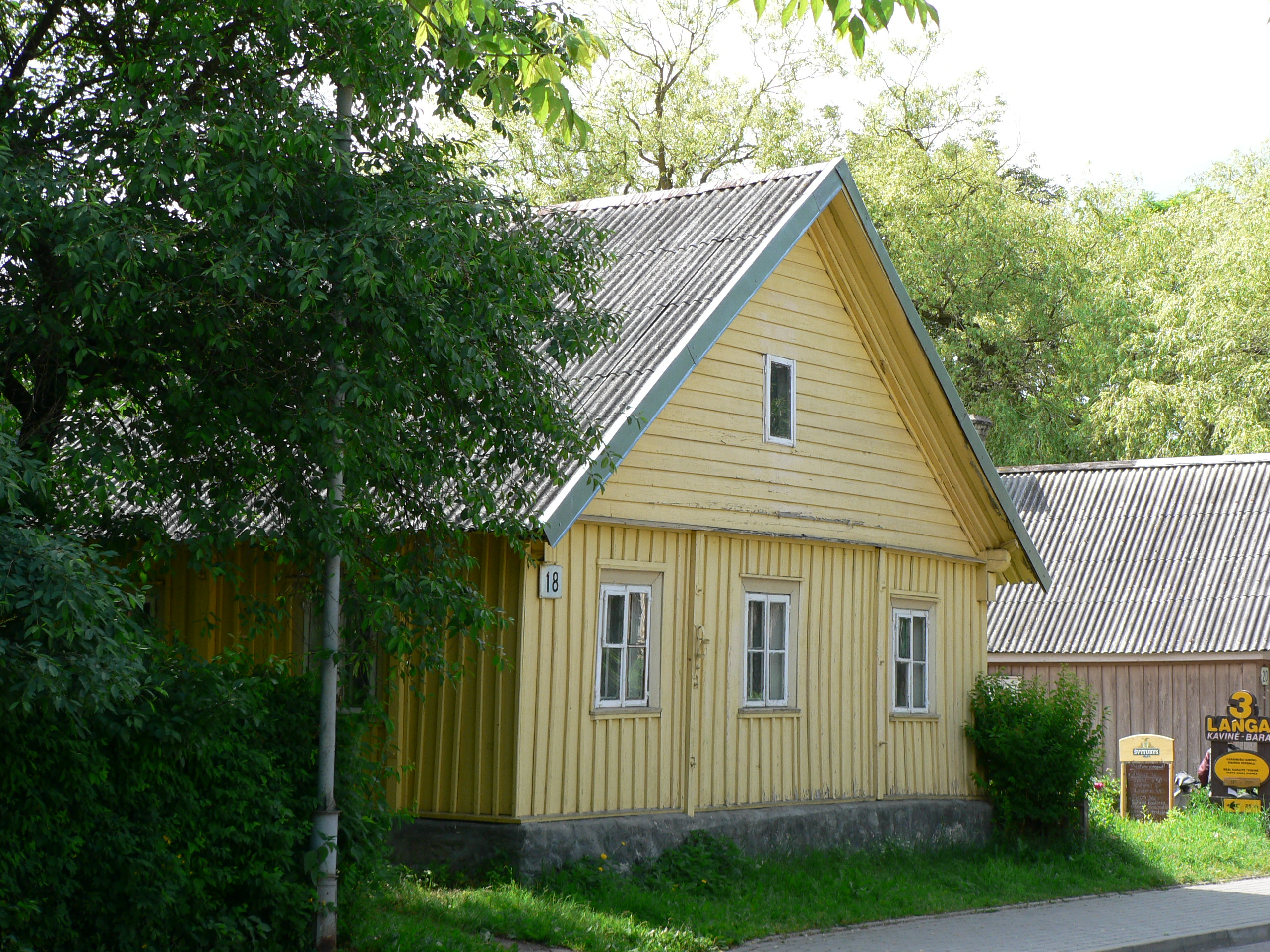 A typical triple-windowed wooden Karaite house in Trakai, Lithuania.